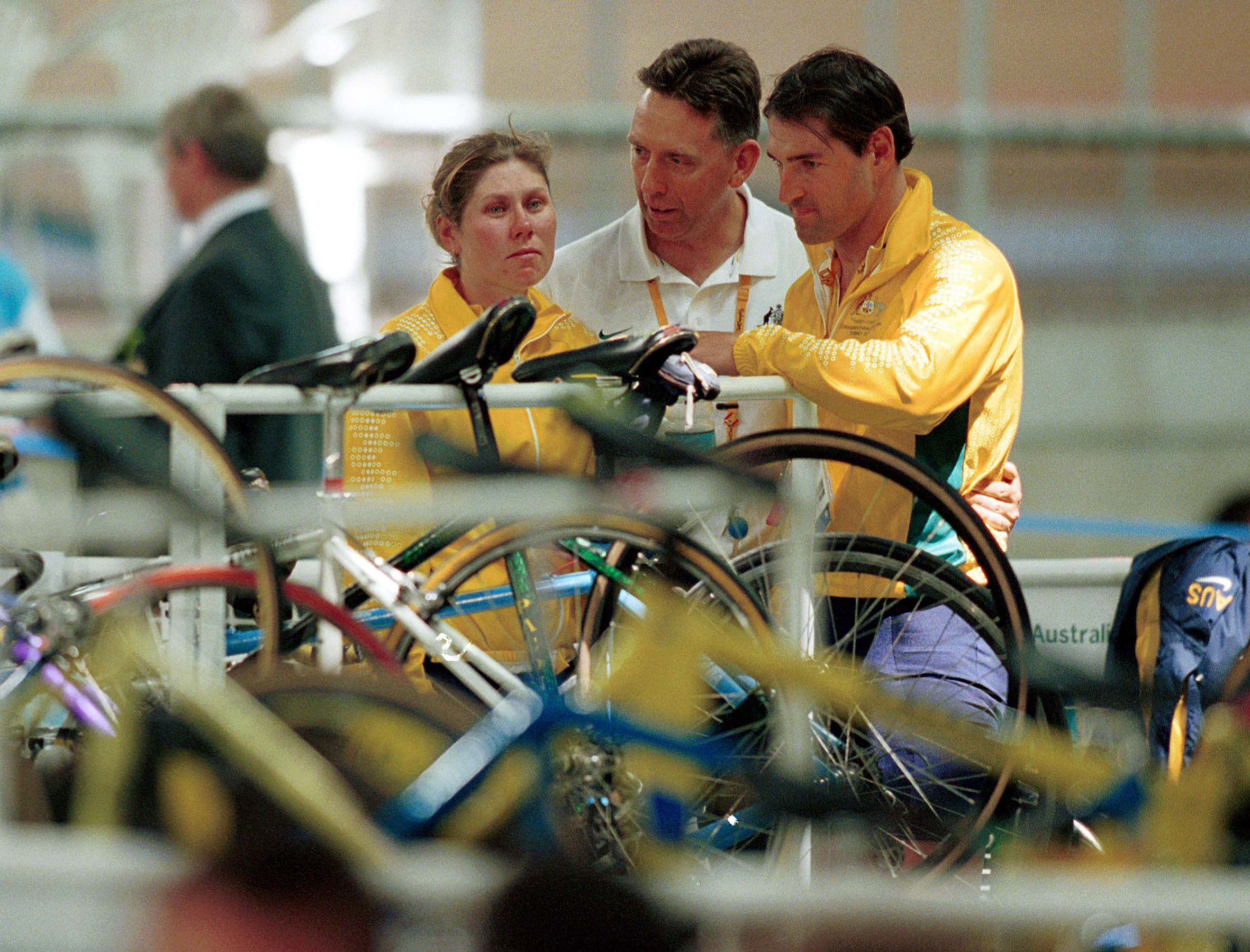 Disappointed and emotional, Australian track cyclists Kerry and Kieran Modra are consoled by cycling head coach Kevin McIntosh at the 2000 Sydney Paralympic Games